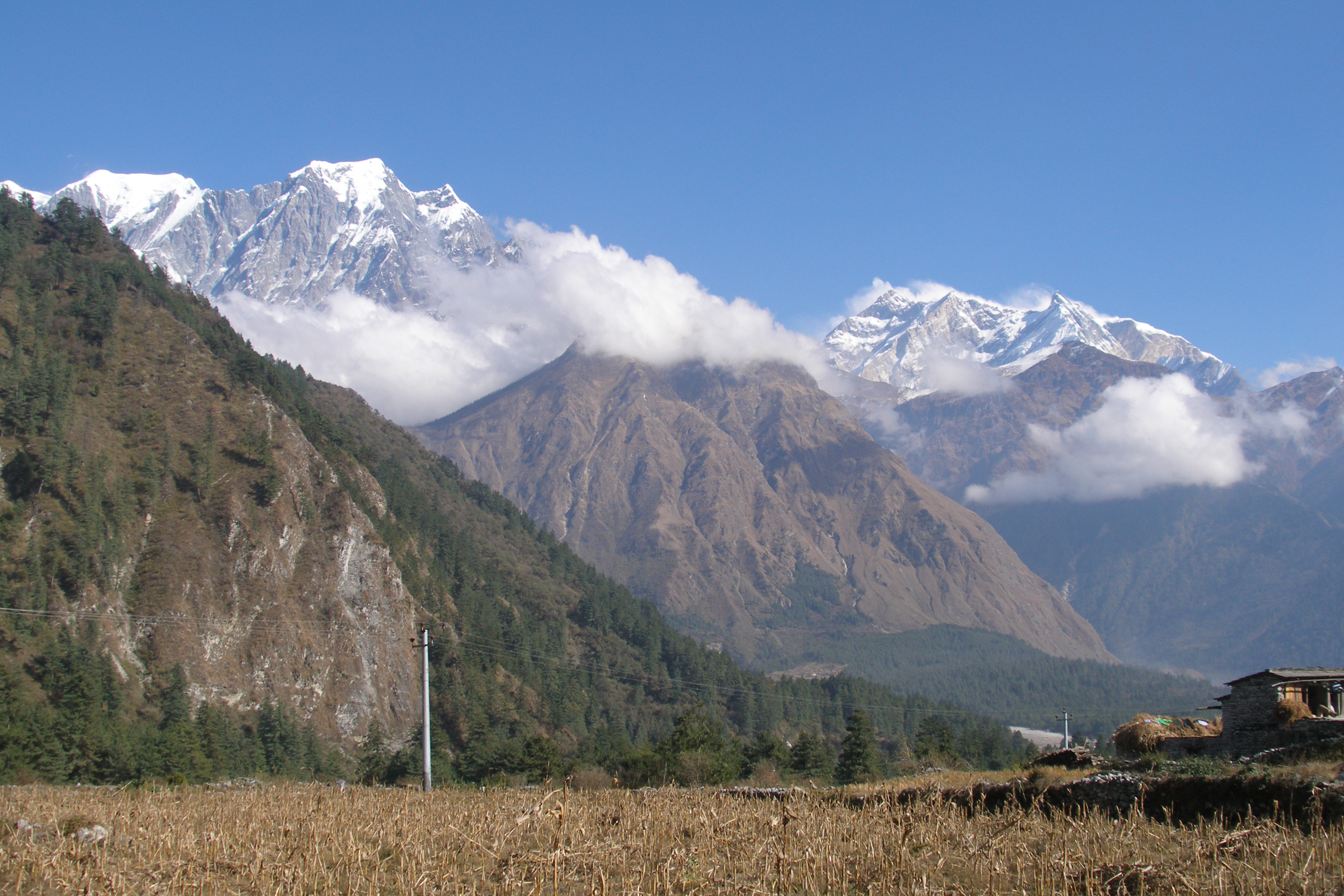 Nilgiri Central (6940 m) and Nilgiri South (6839 m) on the left, Annapurna I (8091 m), Westshoulder and Fang (7647 m) on the right. Seen from Lete, Kali Gandaki Valley.